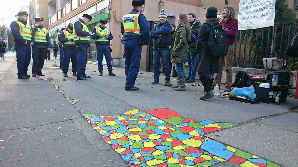 Street art of the Hungarian Two-tailed Dog Party